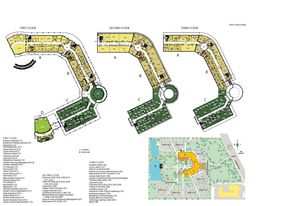 scan of the initial map of the Seagate campus of University of South Florida Sarasota-Manatee from a publicly-available copyright-free document published by this state university; the campus was created on the eastern portion of Seagate, a property platted under that name in the early 1920s on property that had been homesteaded in the 1800s by Elizabeth and Lavanius Dunham, M.D., developed in 1929 by Gwendolyn and Powel Crosley as a fishing camp and elegant winter retreat built on the bay front, purchased and resided in by Mable and Freeman Horton in 1948, a large portion of which was acquired by the state in 1991 after an acquisition campaign by Friends of Seagate and divided into two portions, the western portion being overseen by Manatee County as a historical site and, the eastern portion that became a new satellite campus for USF in Tampa when it separated from the New College campus; the entire property was listed on the National Register of Historic Places in 1982, but contrary to design, the uplands pine forest was cleared for parking lots rather than building the planned parking garage — replaces image uploaded on May 25, 2010